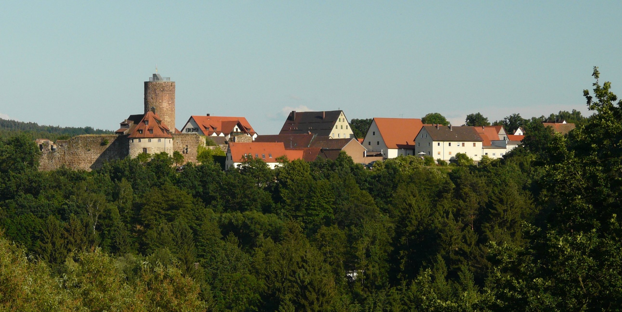 The village Burgthann